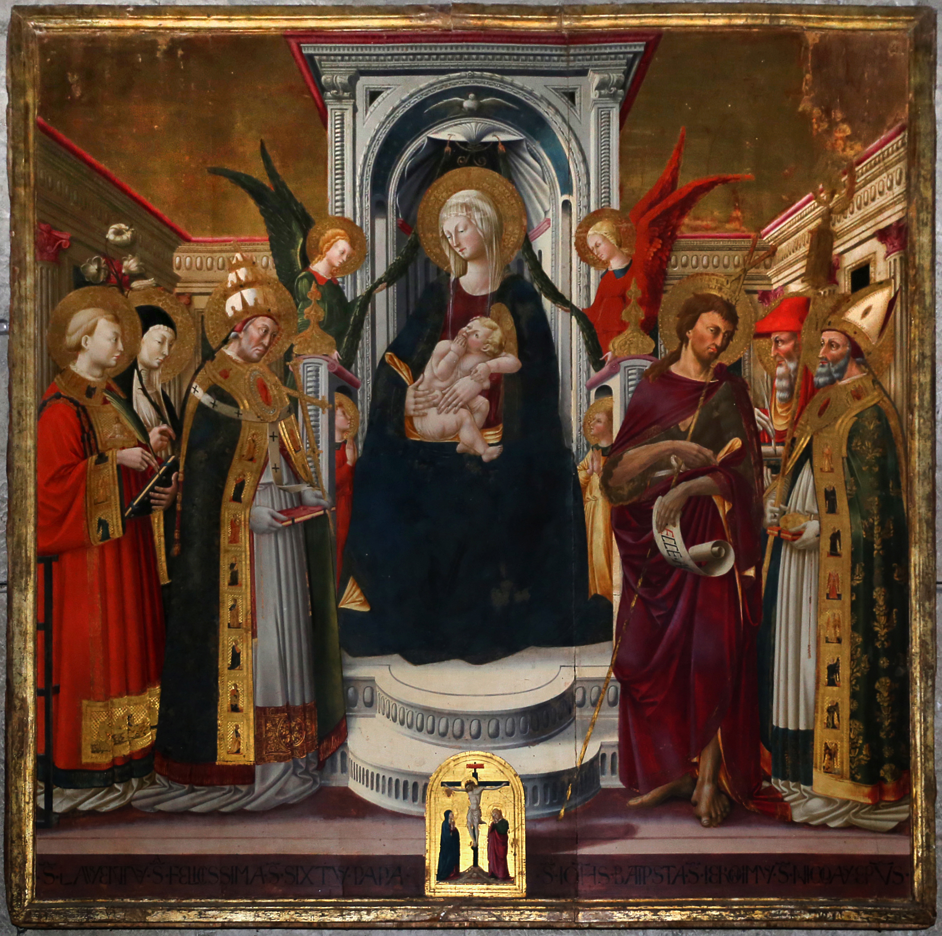 San Sisto (Viterbo)